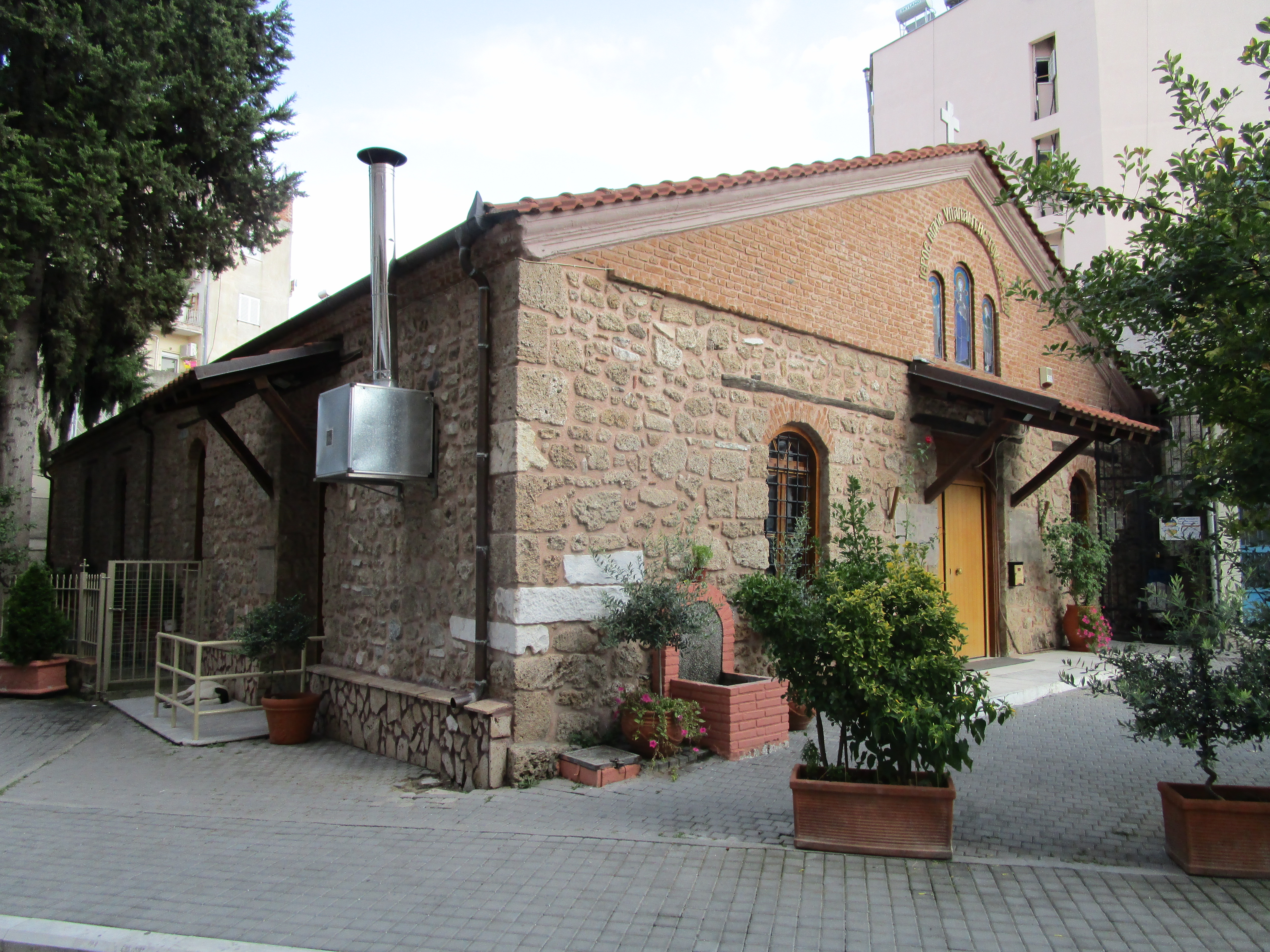 Ypapantis tou Hristou XVIII, Ber